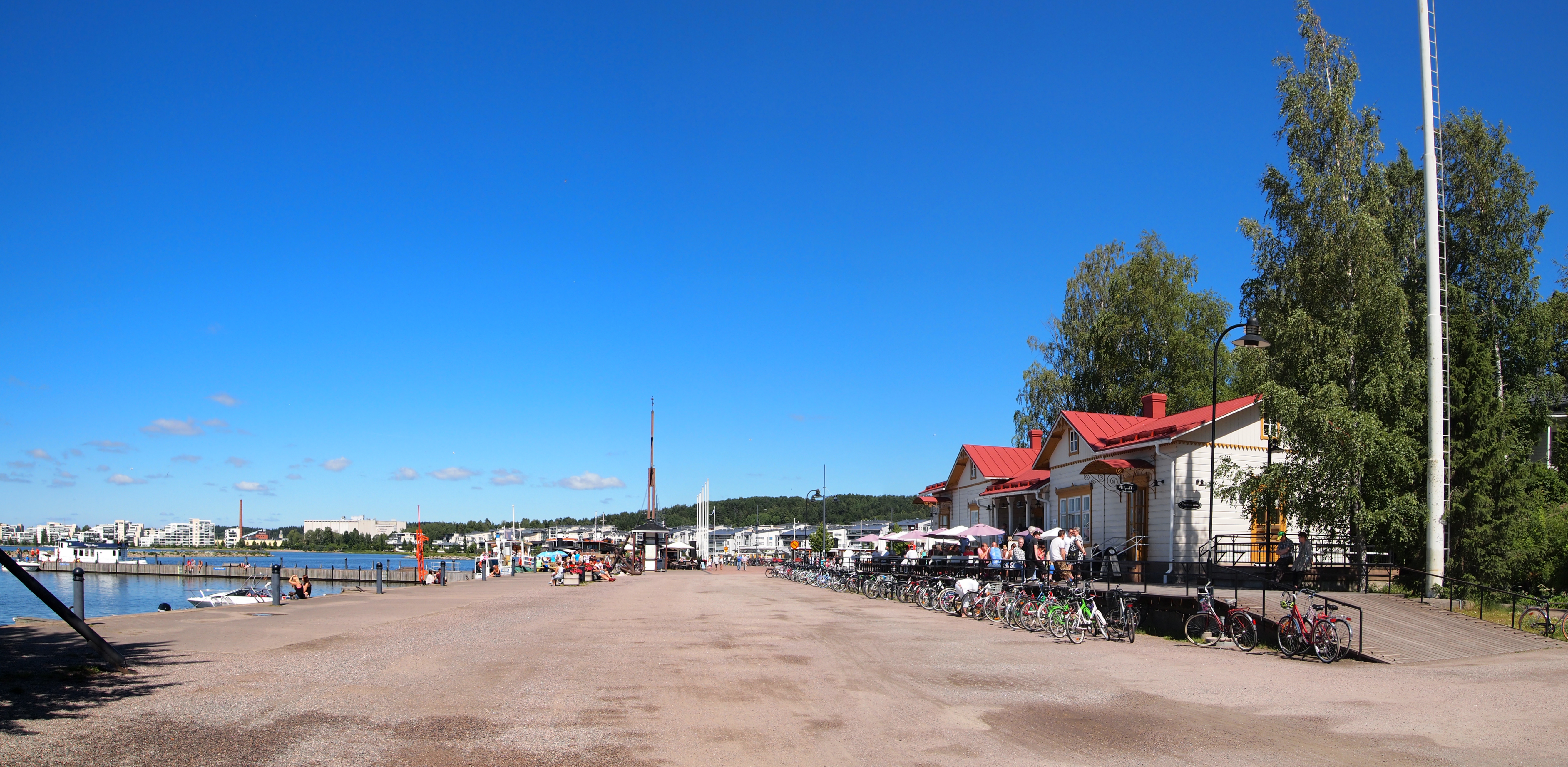 View in Lahti harbour. This photograph was taken with an Olympus E-PL1